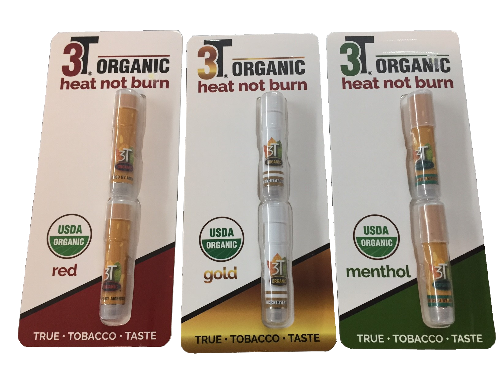 3 different flavors offered by 3T.